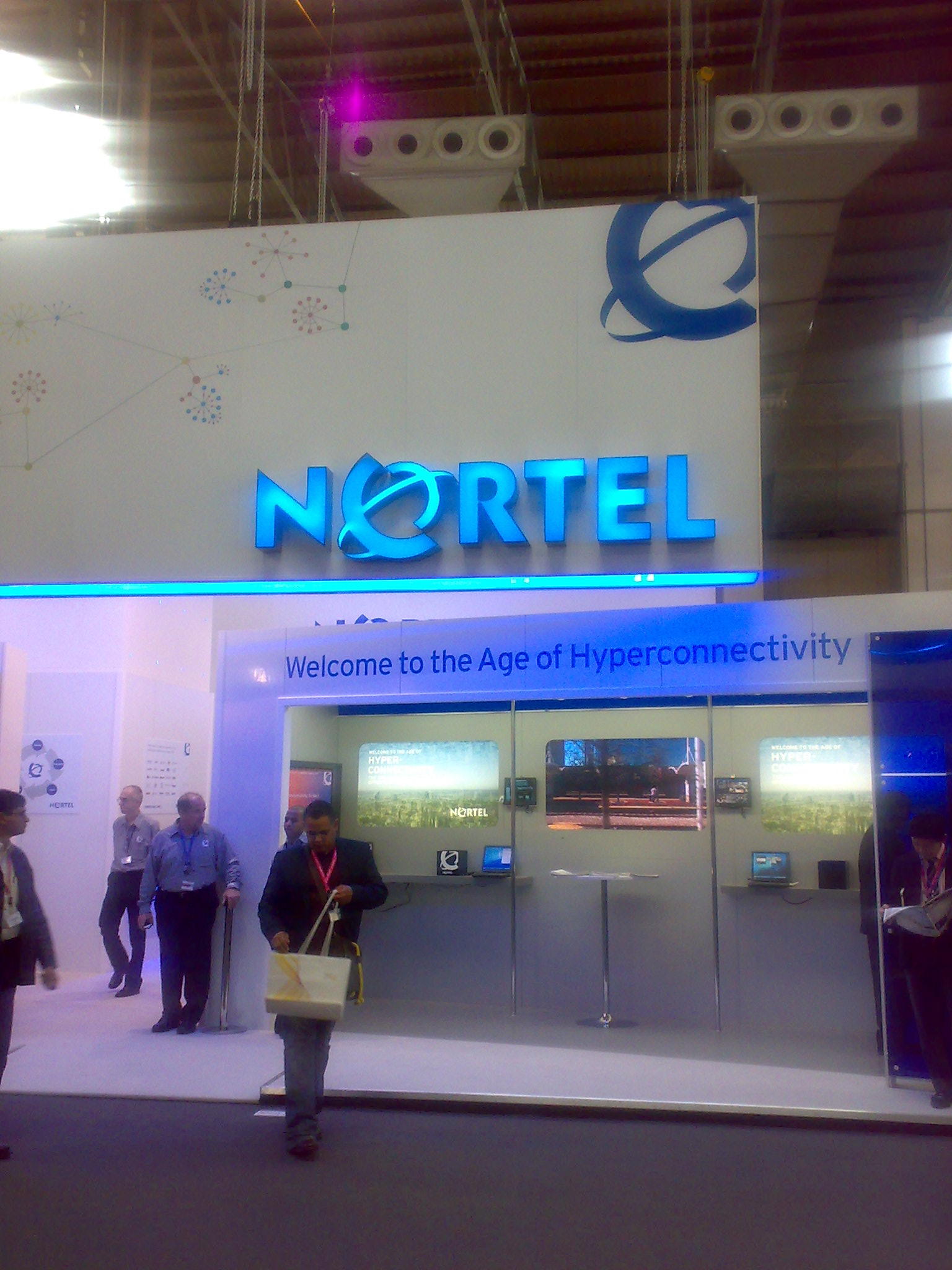 Nortel stand at GSMA Barcelona 2008